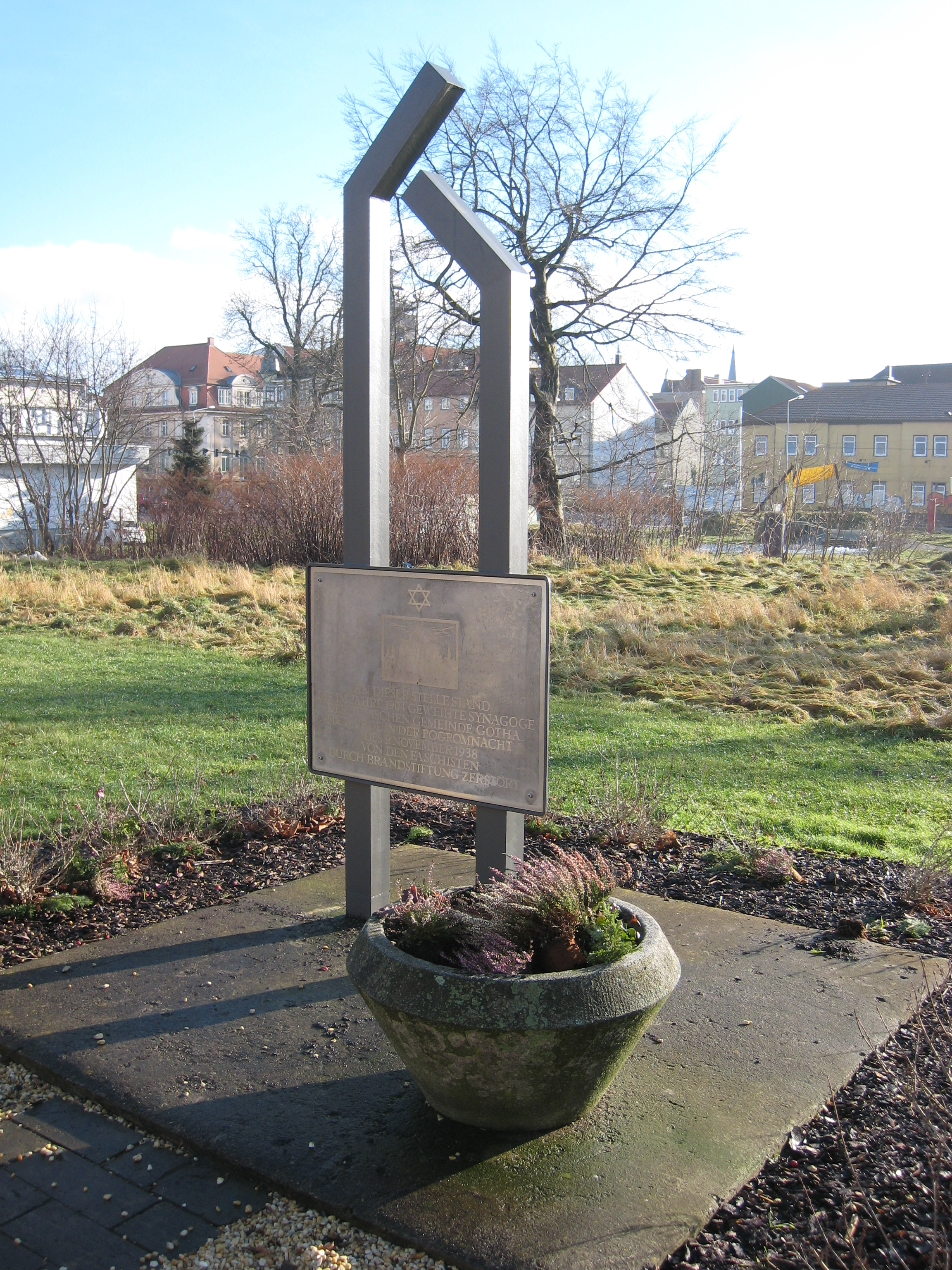 Monument for the synagogue of Gotha, Moßlerstrasse